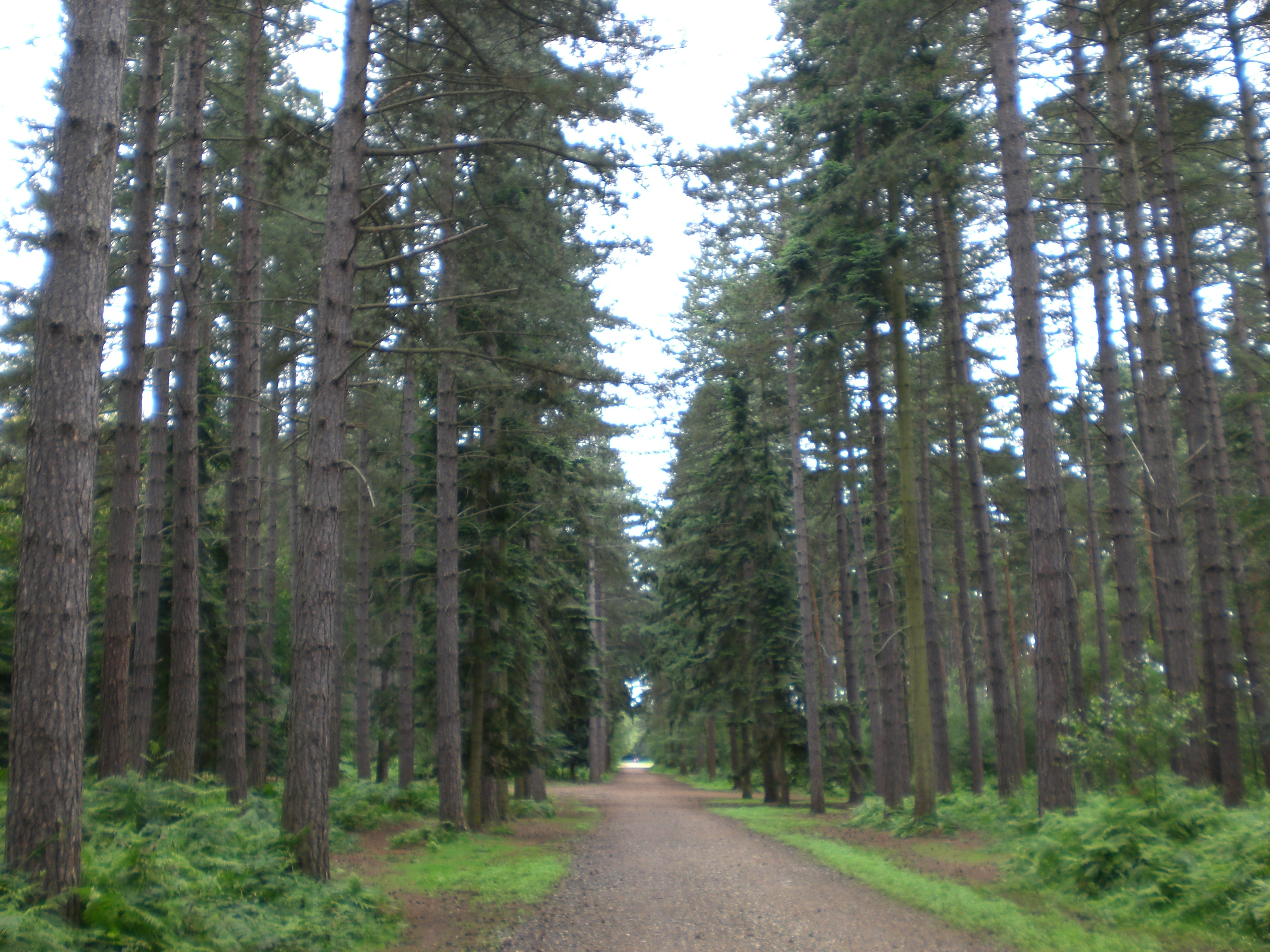 A row of trees at Black Park, Bucks, UK